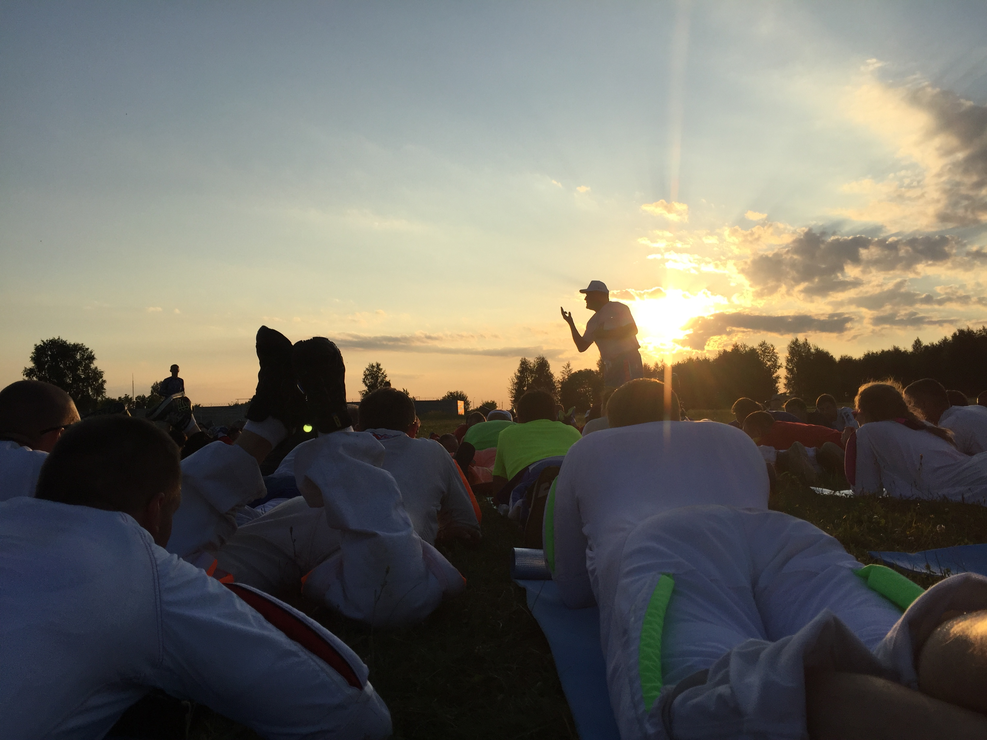 Beloglazov Аэроград Коломна 17 августа 2017 года. Наземная подготовка.